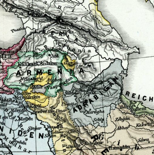 Adrabigan on the map of Spruner and Menke. Based on: 1- The Book of Roads and Kingdoms (Arabic: كتاب المسالك والممالك, Kitāb al-Masālik w’al- Mamālik) by the Persian geographer Ibn Khordadbeh, pp. 118 & 119